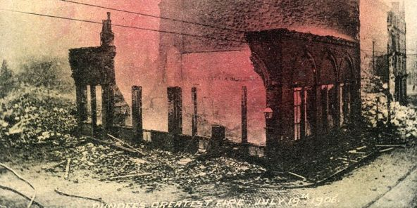 A hand-colored postcard, sent in 1906, depicting the 1906 Dundee Fire.